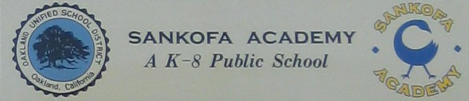 Sankofa Academy logo (sign on building) in Oakland, California